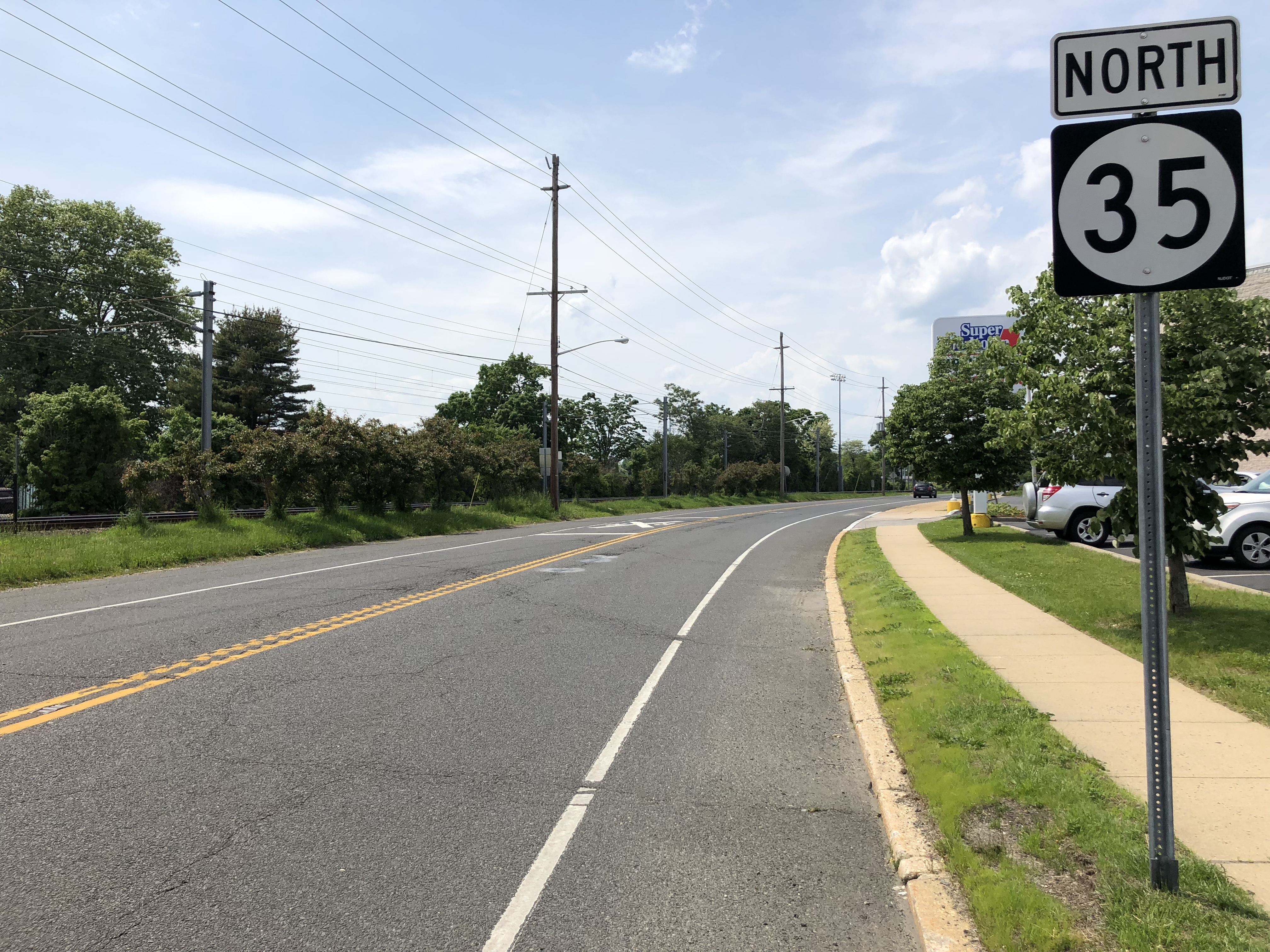 View north along New Jersey State Route 35 (Maple Avenue) just north of Monmouth County Route 520 (Broad Street) in Red Bank, Monmouth County, New Jersey